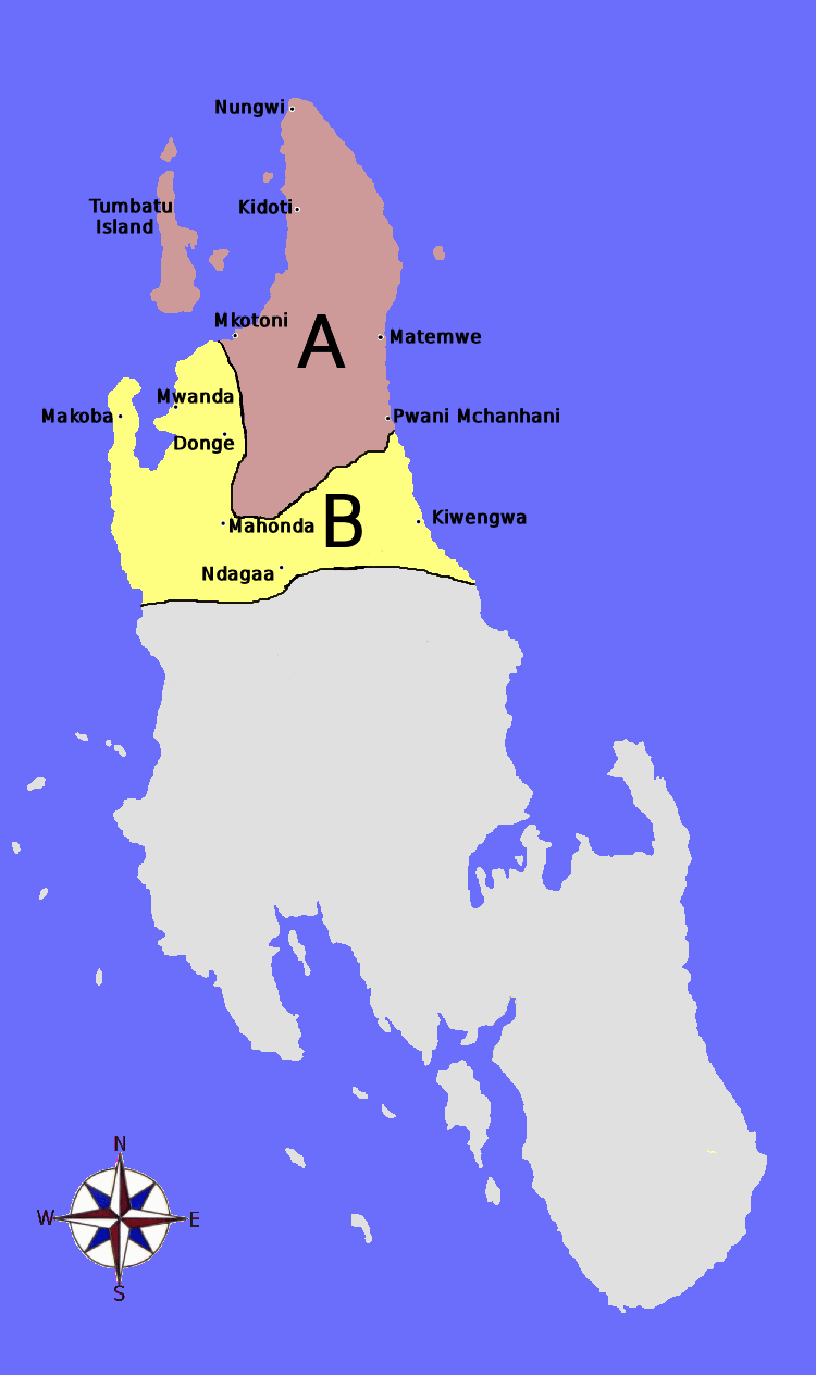 Map showing the boundaries and major towns of the Unguja North Region — on Unguja island (Zanzibar Island), Tanzania. Showing the region's Kaskazini A Distict and Kaskazini B District. Unguja island is in the Zanzibar Archipelago of the Indian Ocean. Kiswahili: Ramani ya Mkoa wa Unguja Kaskazini, Jamhuri ya Muungano wa Tanzania. Credits Based upon data from 2002 Tanzania Census map and GNIS coordinate data.